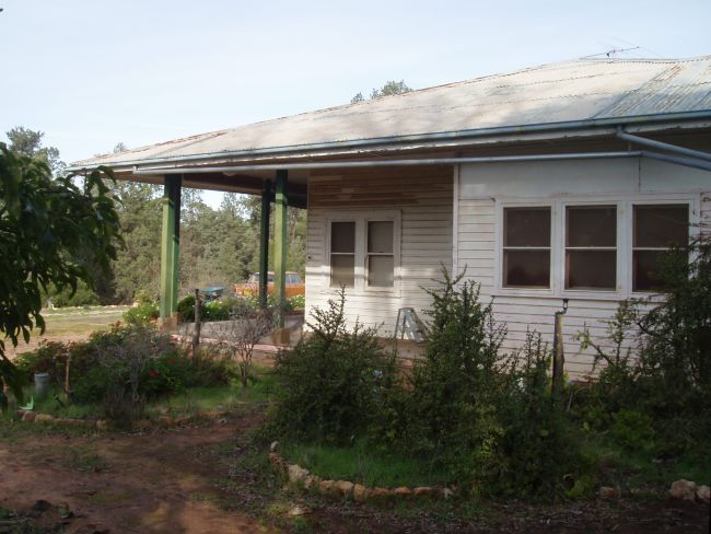 Savernake Station: Homestead at Savernake Station